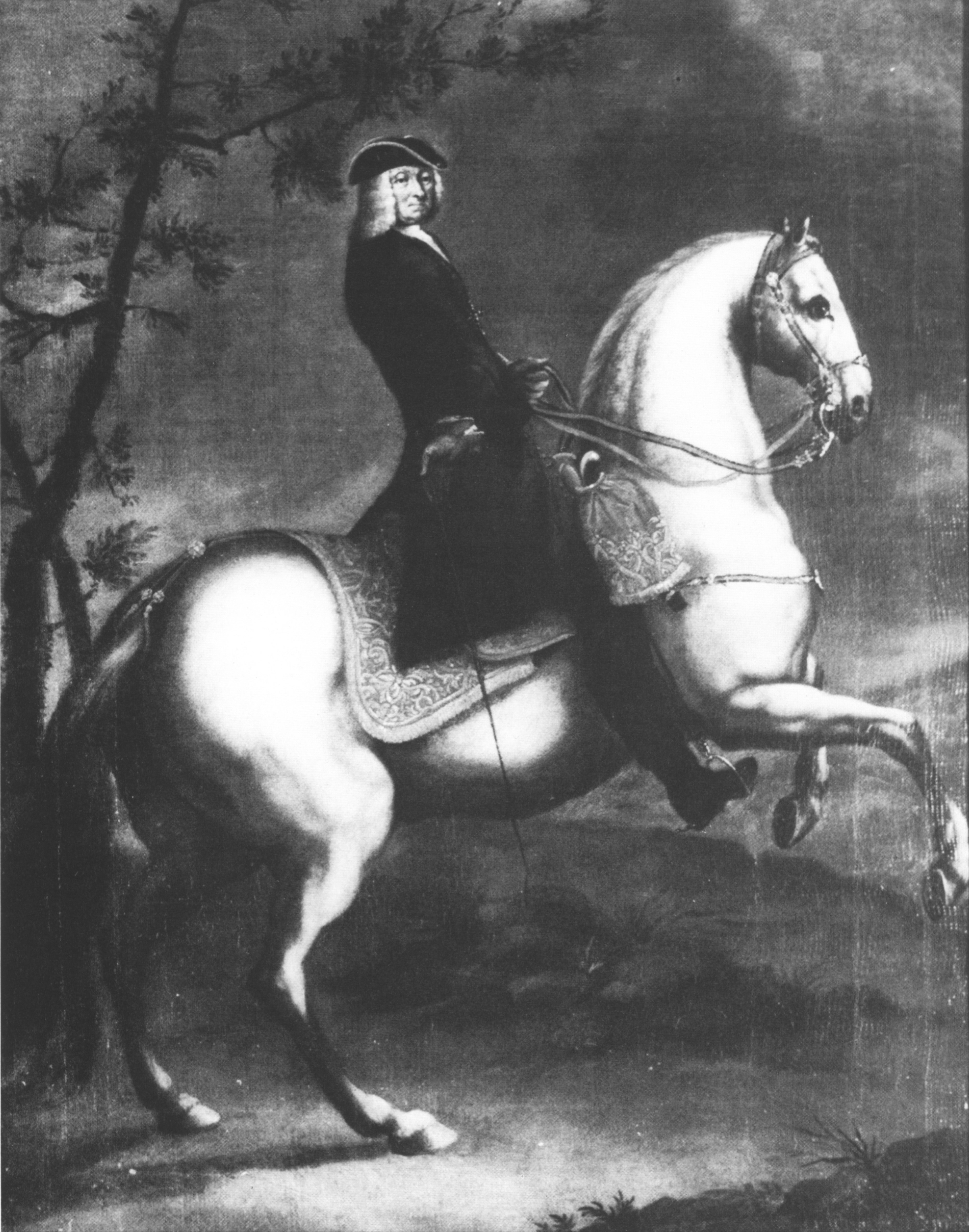 Equestrian portrait of Johann Franz von Stauffenberg (1658-1740)